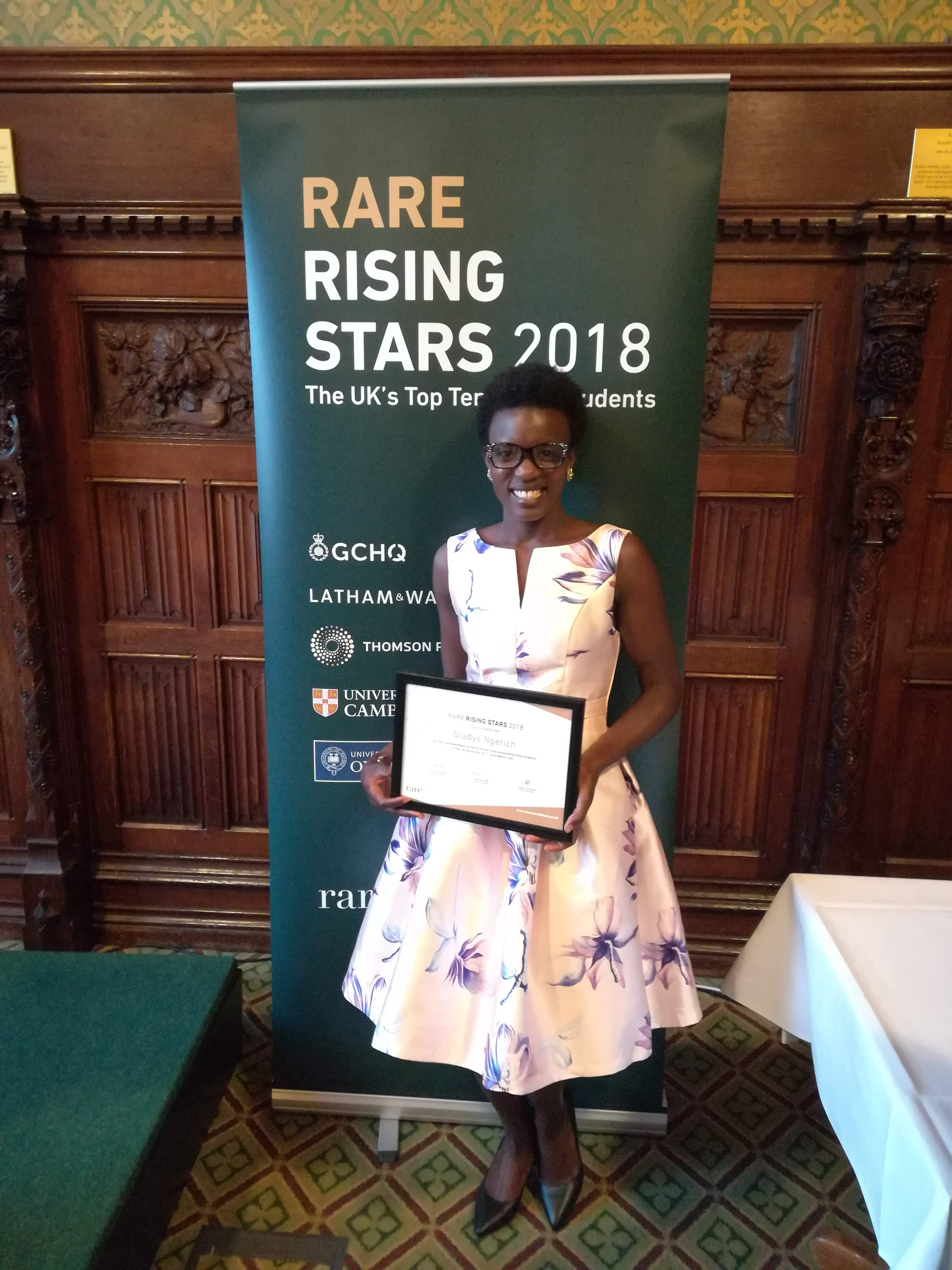 Rare Rising Award Ceremony at the House of Commons